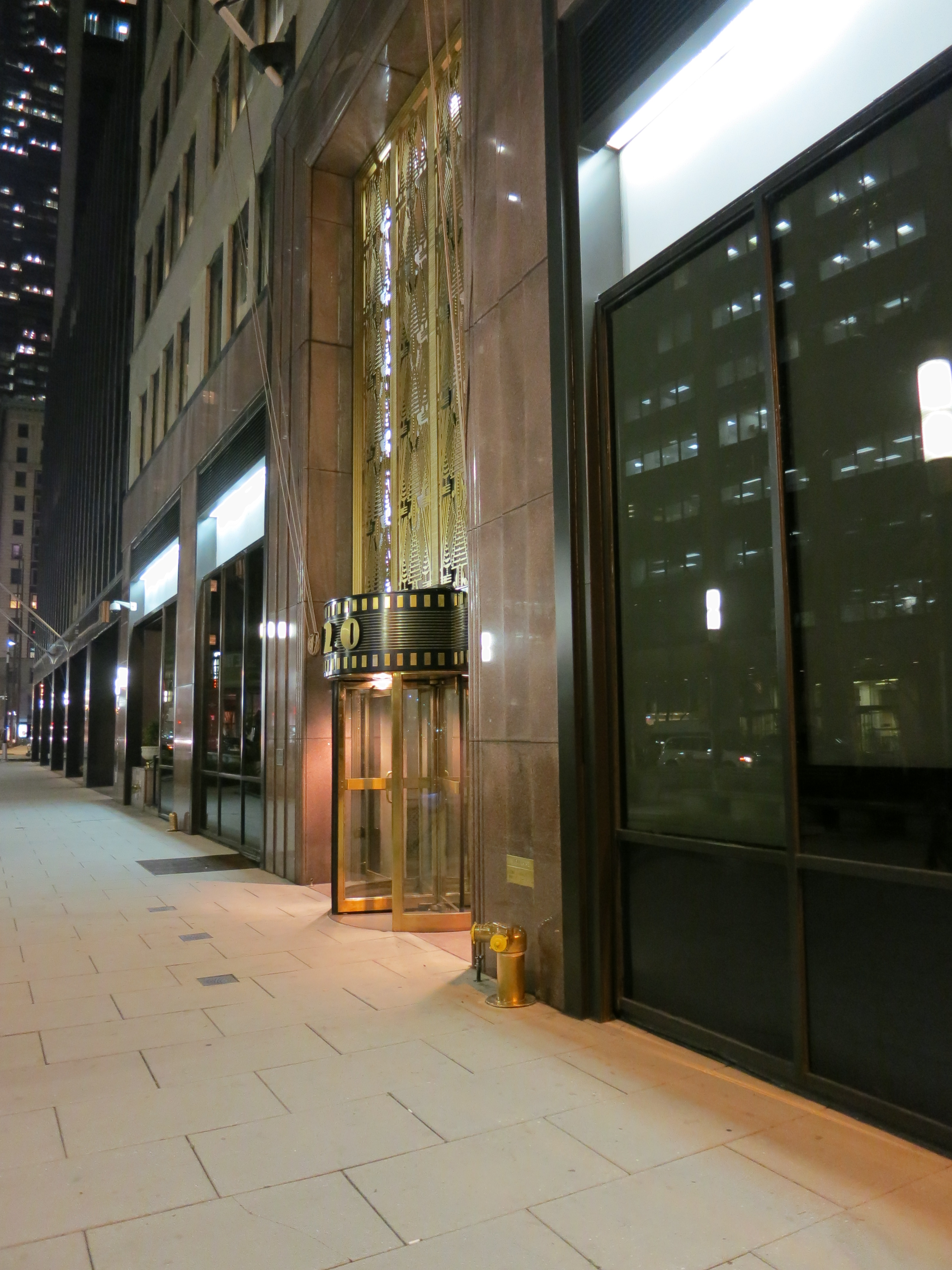 Home of WBAI.